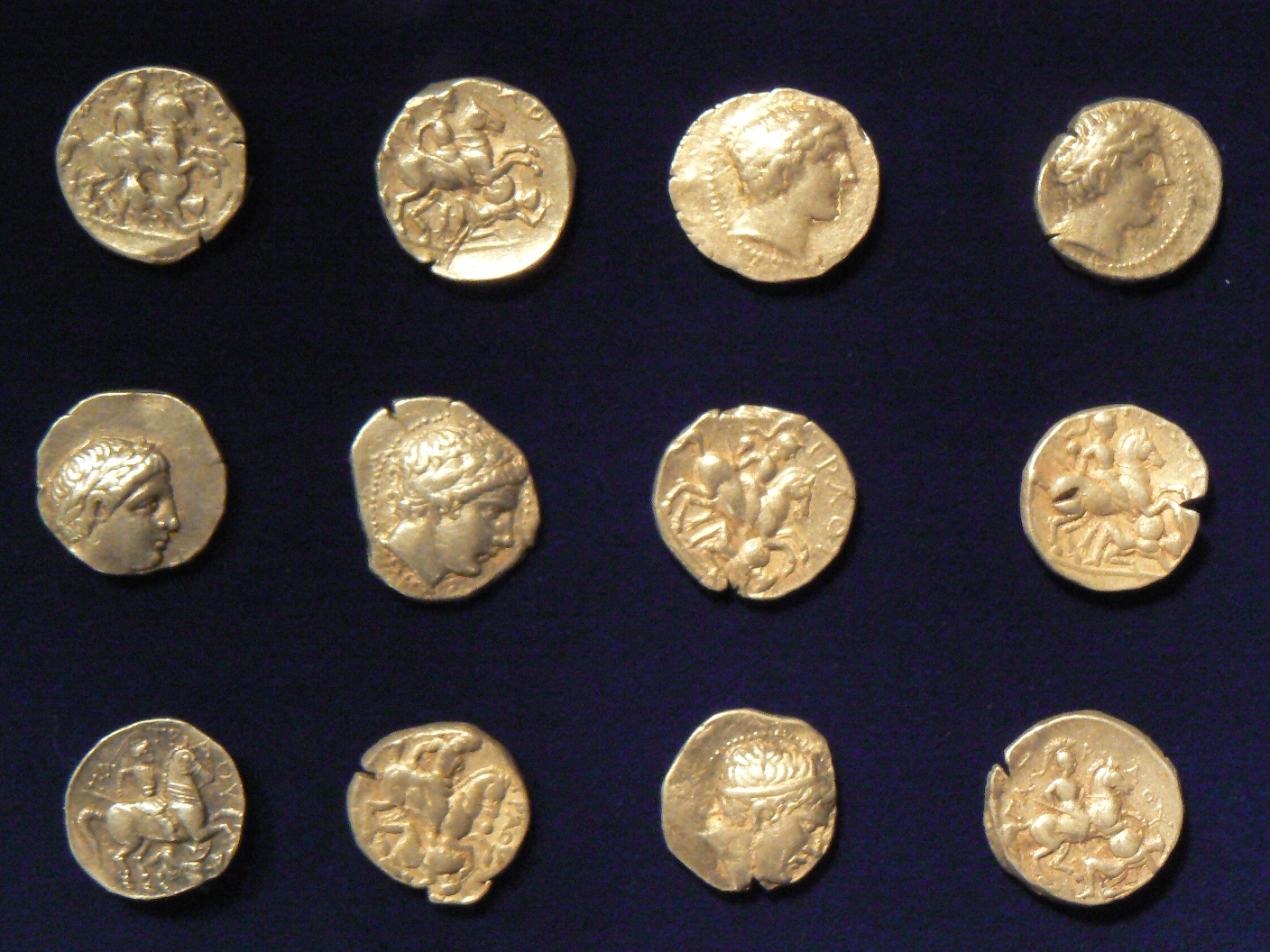 Silver tetradrachms of Patraus. Part of the Rezhantsi Treasure. Exhibits of the National History Museum of Bulgaria